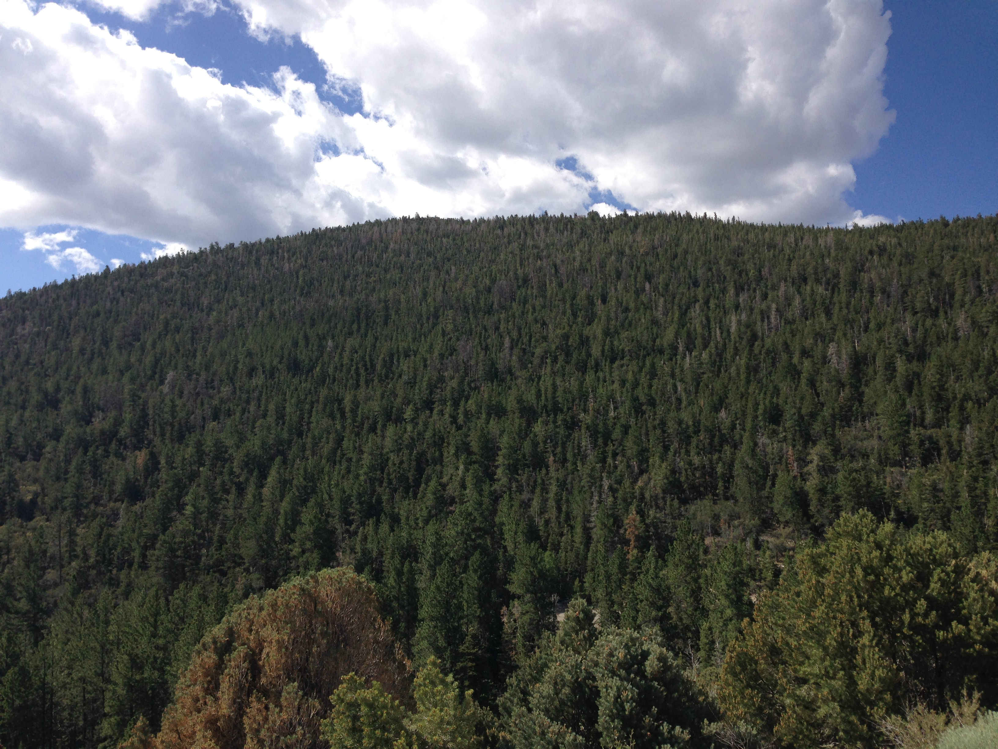 Conifer forest along Wheeler Peak Scenic Drive in Great Basin National Park, Nevada